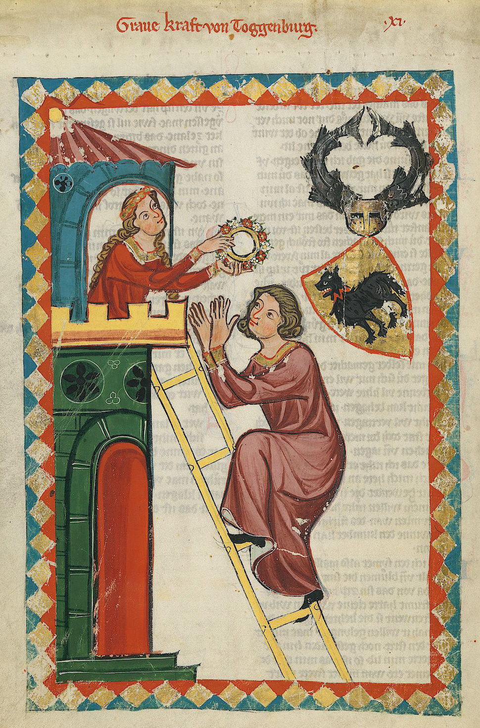 Depiction of count Kraft II. of Toggenburg, a member of one of the oldest and most powerful noble families of Eastern Switzerland. He died in 1261. Cod. Pal. germ. 848 Große Heidelberger Liederhandschrift (Codex Manesse), produced in Zurich between 1300/1340.[1] Pa